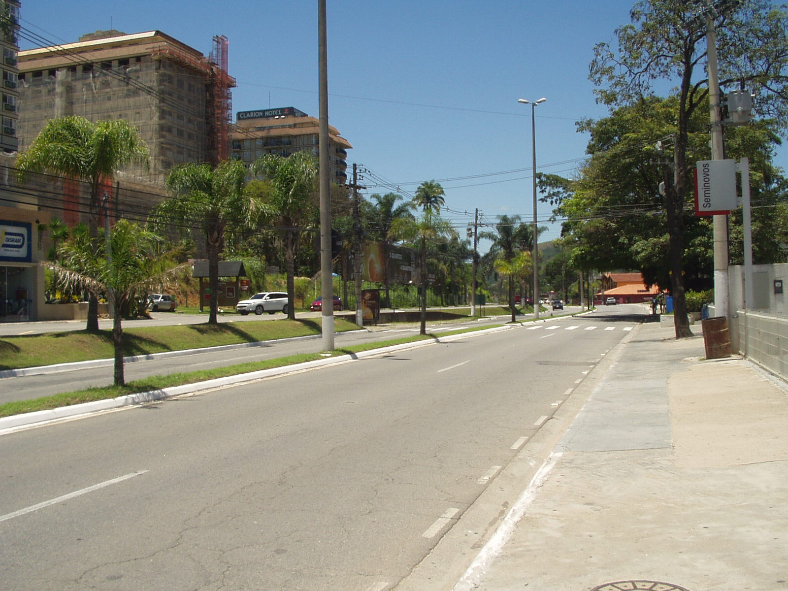 The Union Road and Industry linking the South to the North of Brazil had been replaced by the BR-040. Currently serves connection between the center of Petropolis and its districts